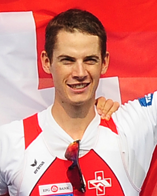 Lucas Tramer at the 2013 World Rowing Championships